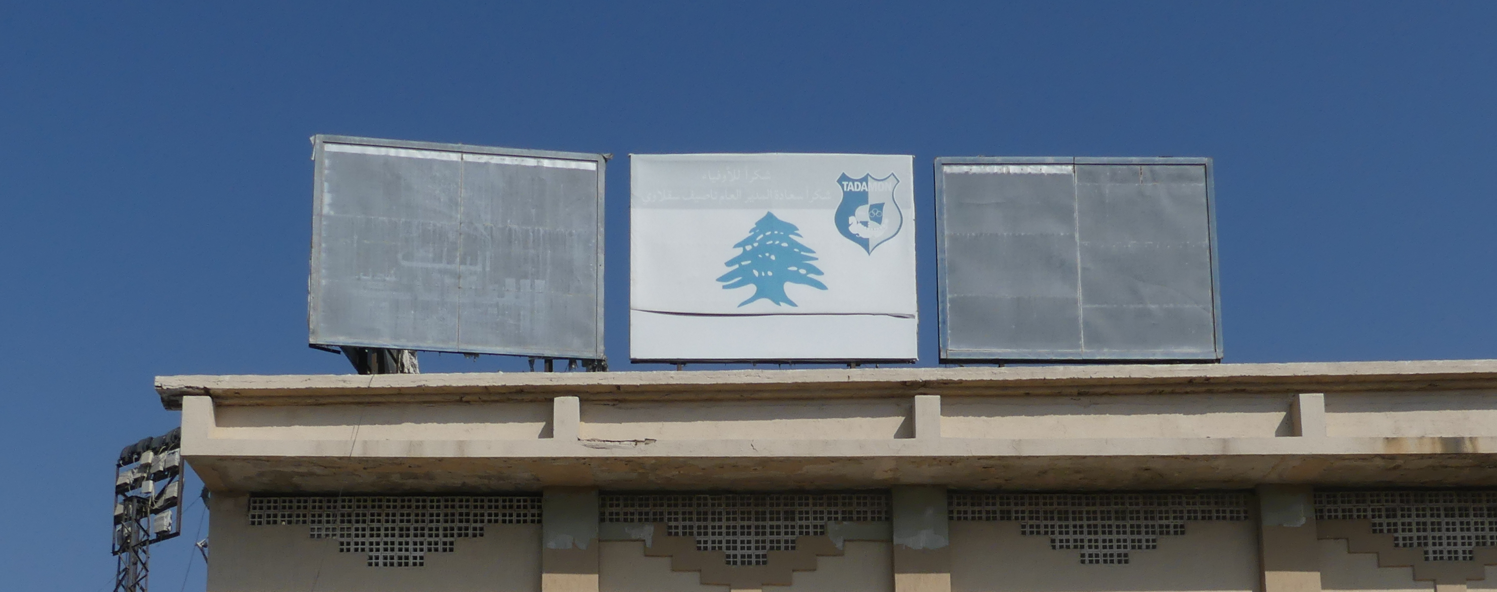 The faded sign of the Lebanese Premier League football team "Tadamon Sour Sporting Club" (founded in 1946) on the roof of the Municipal Stadium in Tyre/Sour, Southern Lebanon.